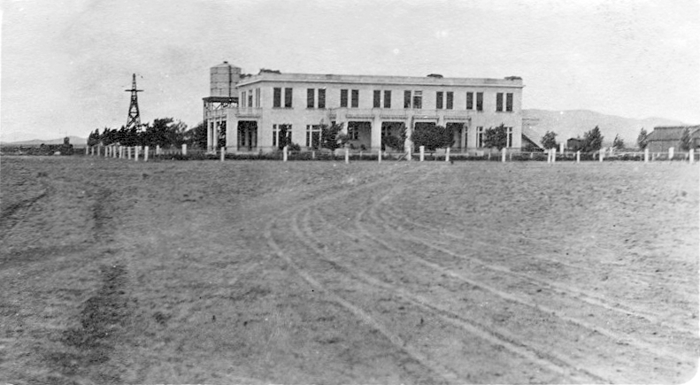 Photograph of a hotel in Lobo, Texas. Physical Description: 1 photographic print: gelatin silver; 8 x 14 cm File: ag1993_0881_lobo_001_opt.jpg Digital Collection: Texas: Photographs, Manuscripts, and Imprints For more information, see